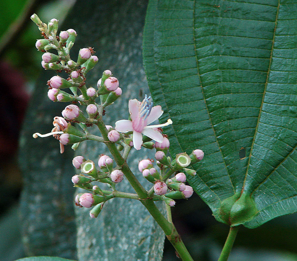 A species of northern Amazon basin, with leaf base domatia. Photo from Amacayacu Park, Colombian Amazon. In context at